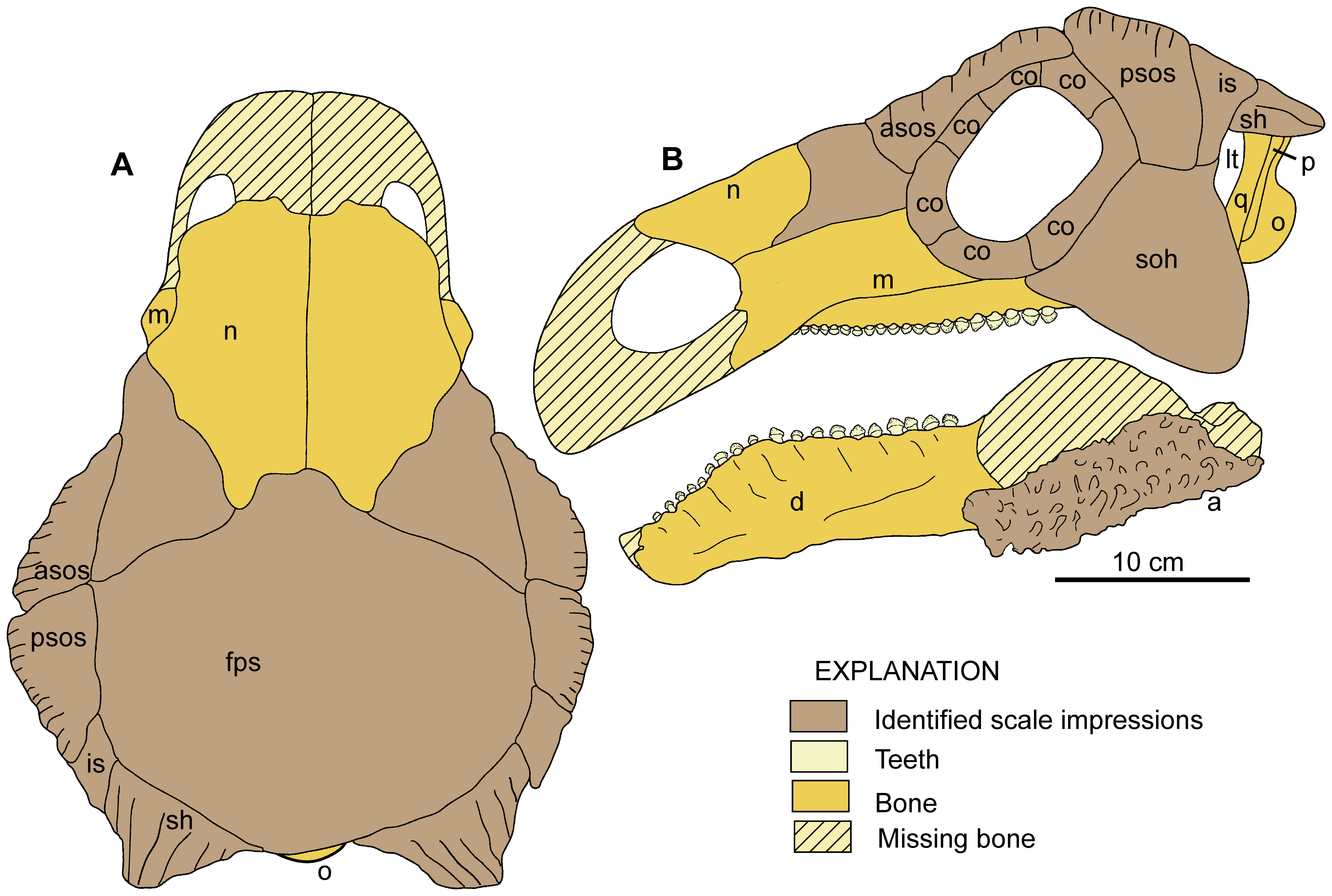 Drawing of Europelta carbonensis n. gen., n. sp., skull reconstruction. Europelta skull reconstruction in: (A) dorsal view and (B) left lateral view with reconstruction of mandible. Abbreviations: a = angular, asos = anterior supraorbital scale, co = circumorbital scales, d = dentary, fps = frontoparietal scale, is = intermediate scale, lt = lower temporal fenestra, m = maxilla, n = nasal, o = occipital condyle, p = paraocciptal process, psos = posterior supraorbital scale, sh = squamosal horn, soh = suborbital horn.